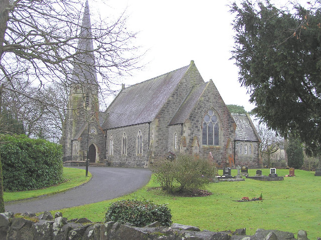 Clanabogan Church of Ireland. In the parish of Clanabogan.